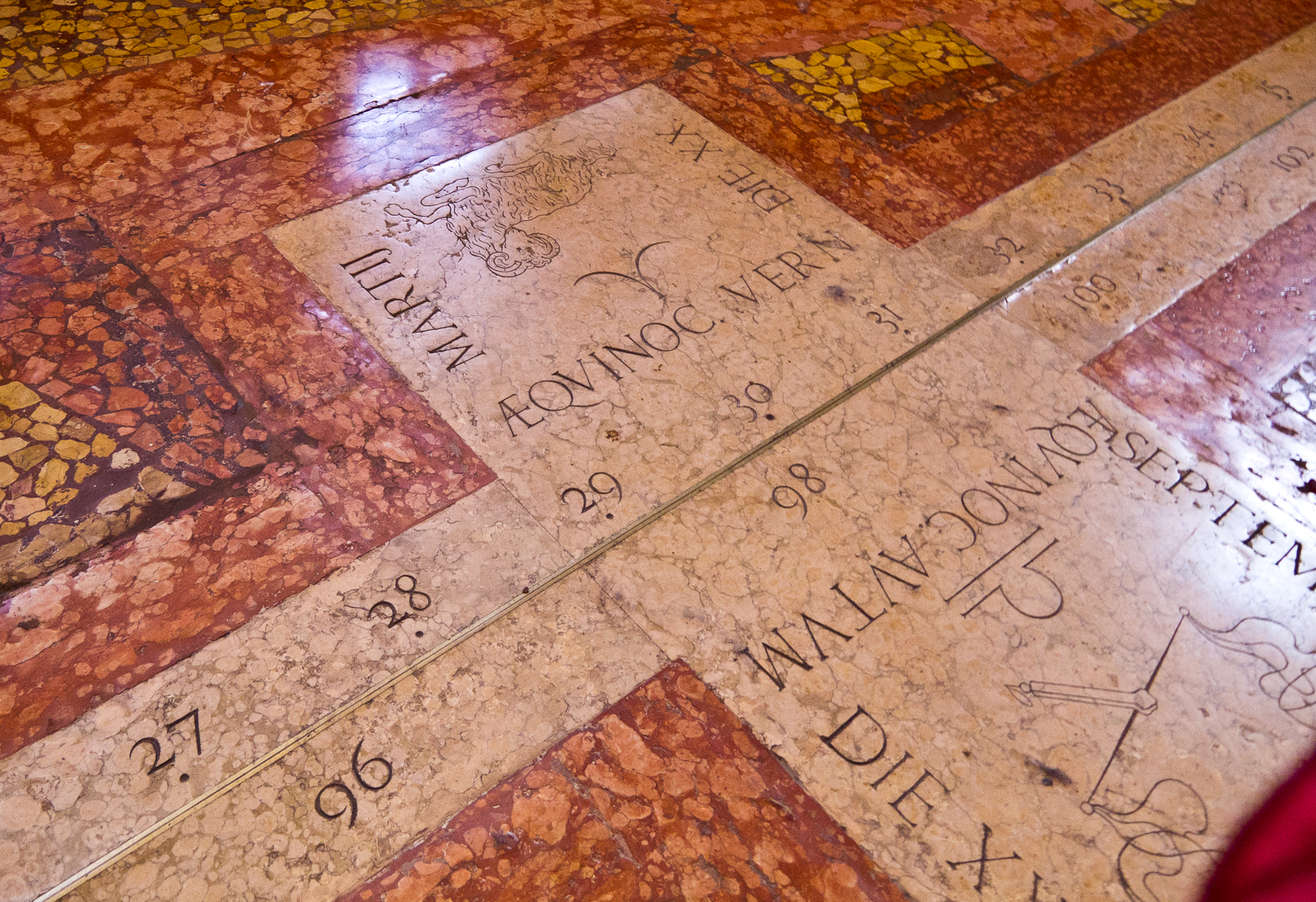 Bologna, San Petronio: Meridian of Giandomenico Cassini